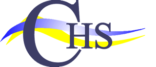 Cwmcarn High School Logo